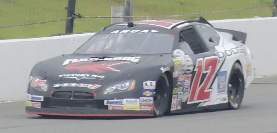 Maryeve Dufault's No. 12 Mad-Croc/Dodge Motorsports Dodge at Pocono Raceway in 2011